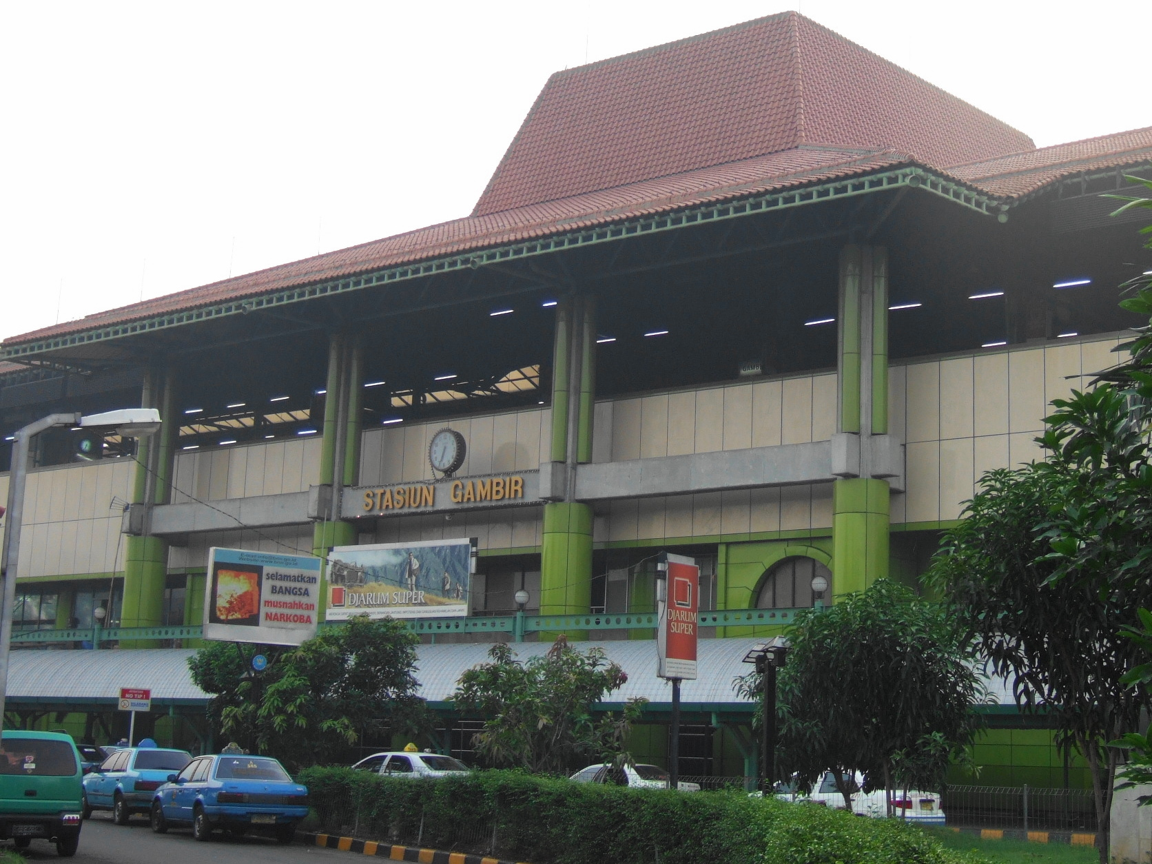 Gambir Station, Jakarta, Indonesia